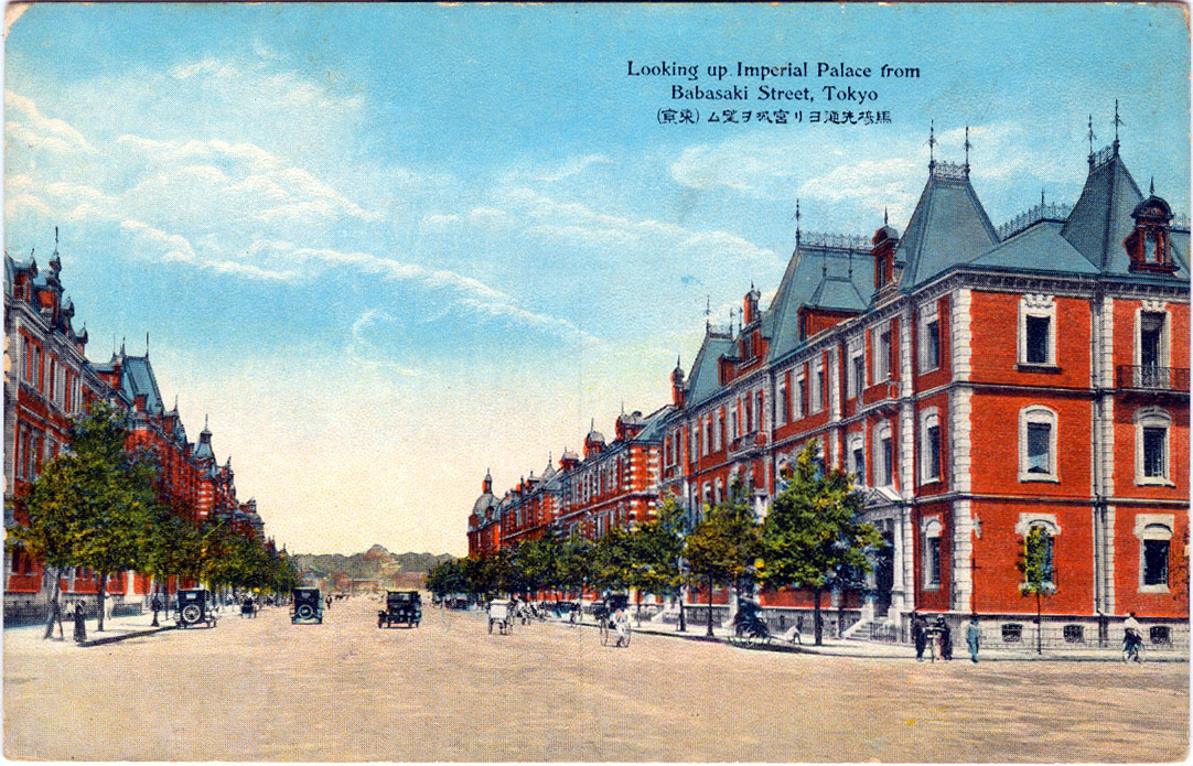 Commemorative postcard of Marunouchi district of, circa 1920s. View of the Mitsubishi headquarters in Marunouchi (right) and its environs, looking towards the Imperial Palace grounds.